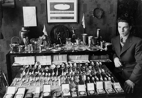 Photograph of the Finnish boxer Sten Suvio (1911–1988) with prizes.